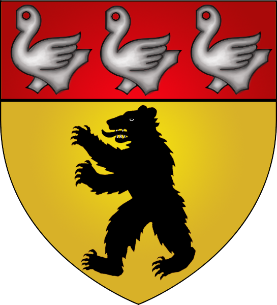 Coat of arms of the municipality of Leudelange, Luxembourg